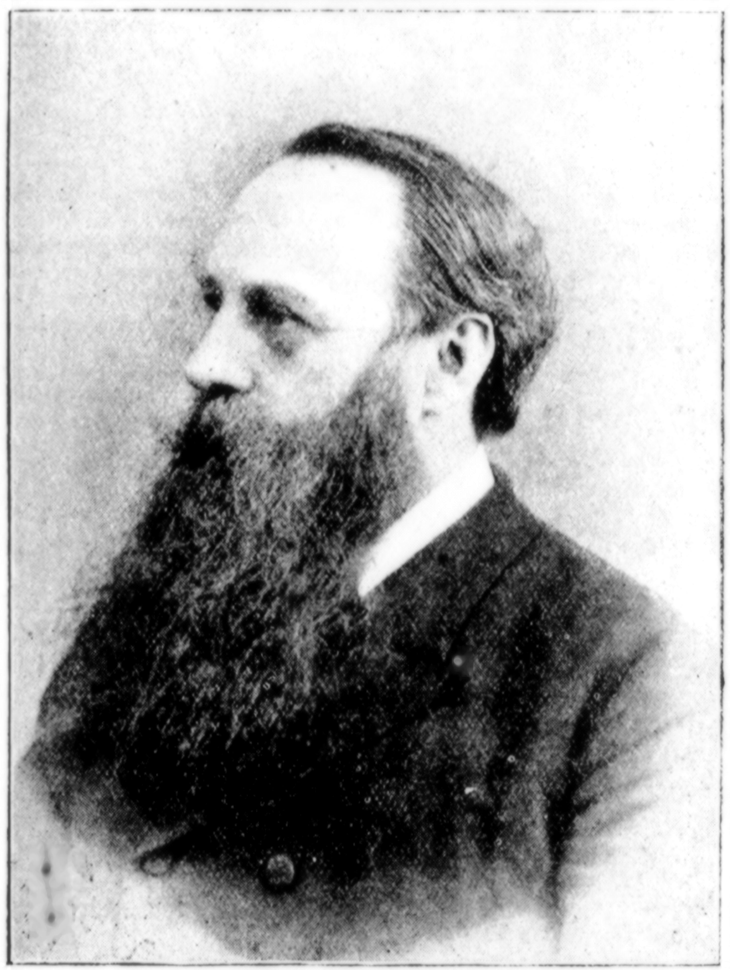 Henry Mayers Hyndman (1842–1921) was an English writer and politician, and the founder of the Social Democratic Federation and the National Socialist Party.